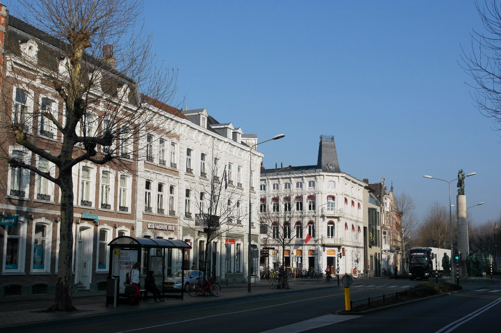 Maastricht, the Netherlands. View of residential and office buildings on Wilhelminasingel in Wyck.